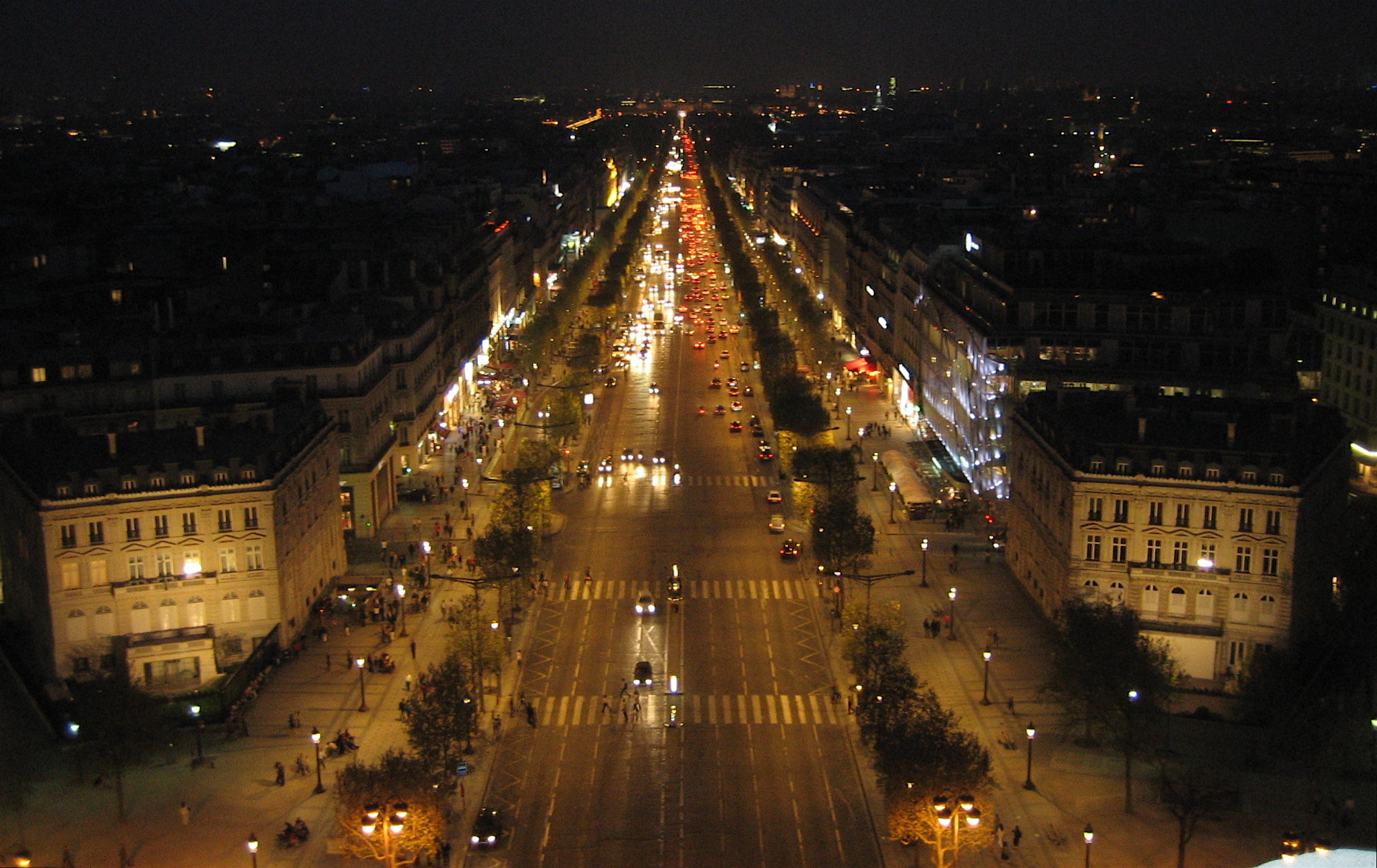 Avenue des Champs-Élysées, Paris, France. Photographed at night from the Arc de Triomphe.